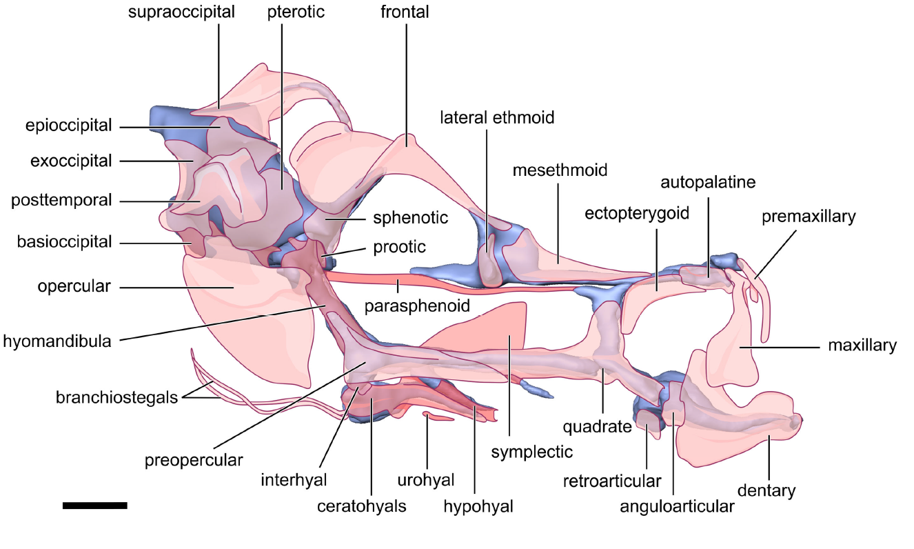 Lateral view of a typical adult seahorse skull (Hippocampus sp.) showing the skeletal elements. Tip of the snout is at right. Scale bar= 200µm